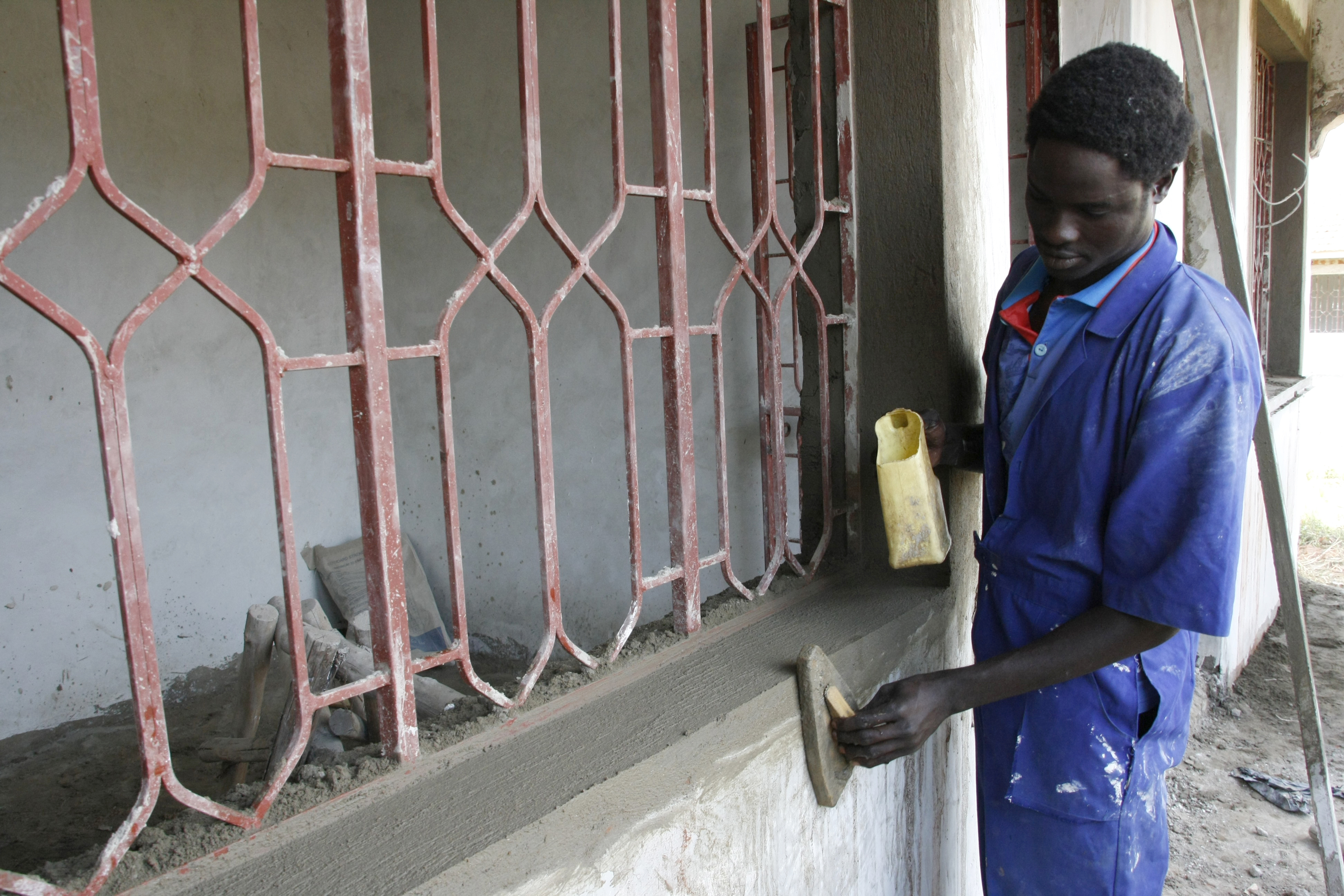 Some 60,000 children were abducted by the Lords Resistance Army during their 20 year campaign of terror in the Northern Region of Uganda. David Ojok was abducted at the age of 13, and forced to become a child soldier. Now he is working as a bricklayer, thanks to training he received at the UKaid supported Northern Uganda Youth Development Centre. "Without this training," says David, "I possibly would be dead. I would have been pushed into stealing for food. The centre has changed my life."